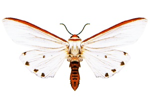 Aloa marginata Phylum ARTHROPODA Class HEXAPODA Order Lepidoptera Family Arctiidae